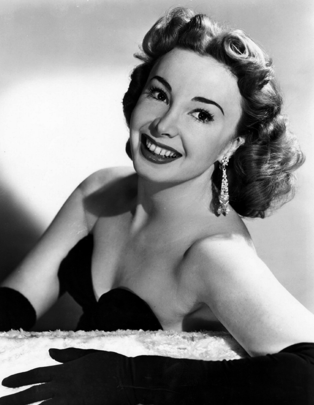 Photo of Audrey Meadows from the early television program Bob and Ray.